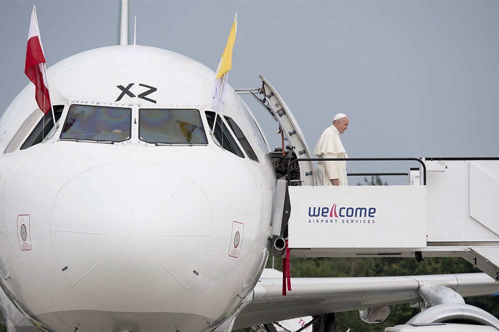 27.07.2016, Kraków | Premier Beata Szydło wraz z polskim władzami przywitała Ojca Świętego w Krakowie. fot. P. Tracz/KPRM